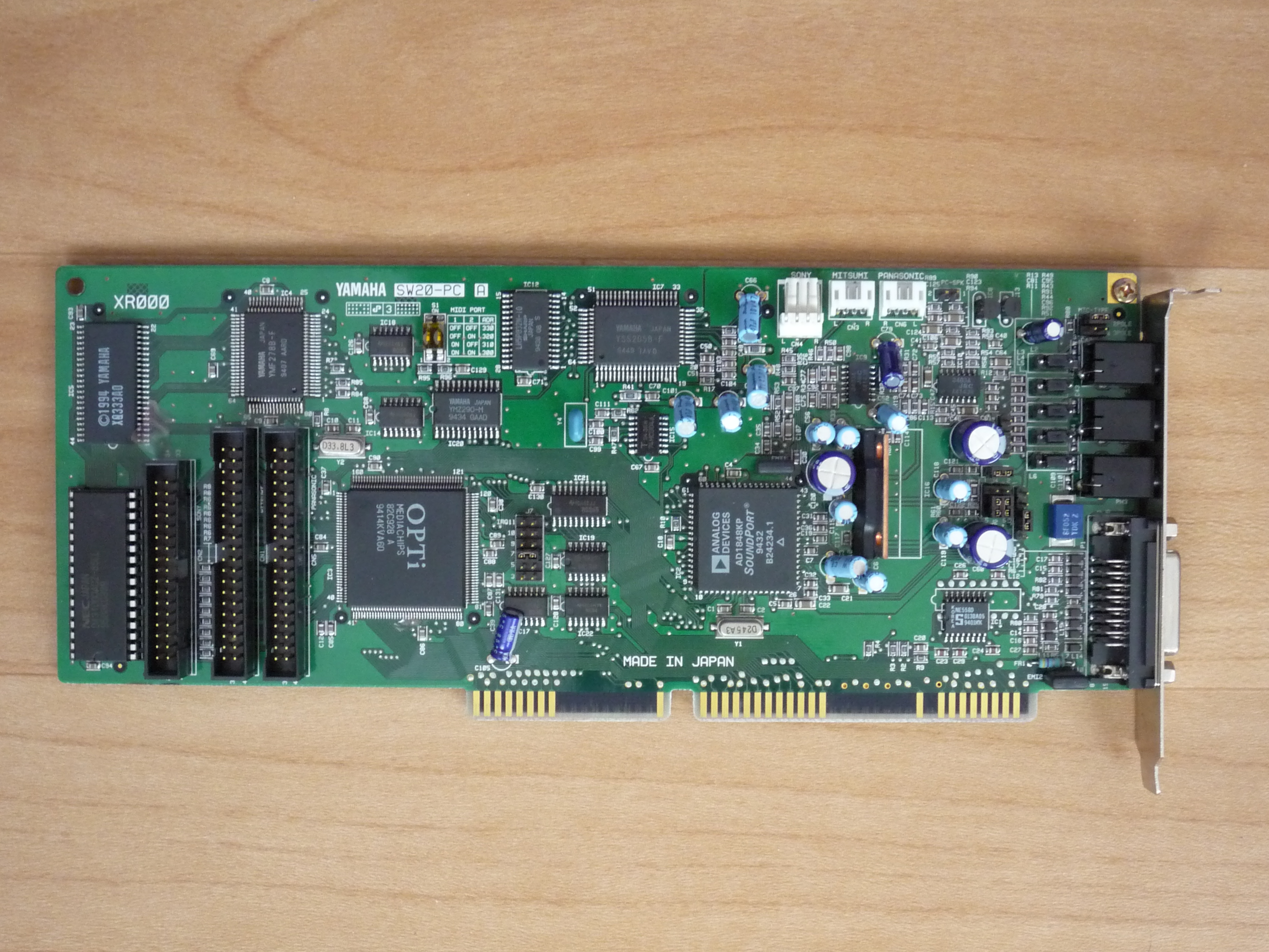 Soundcard Yamaha Sound Edge SW20 PC with OPTi Mediachips processor, manufacturing date 1995